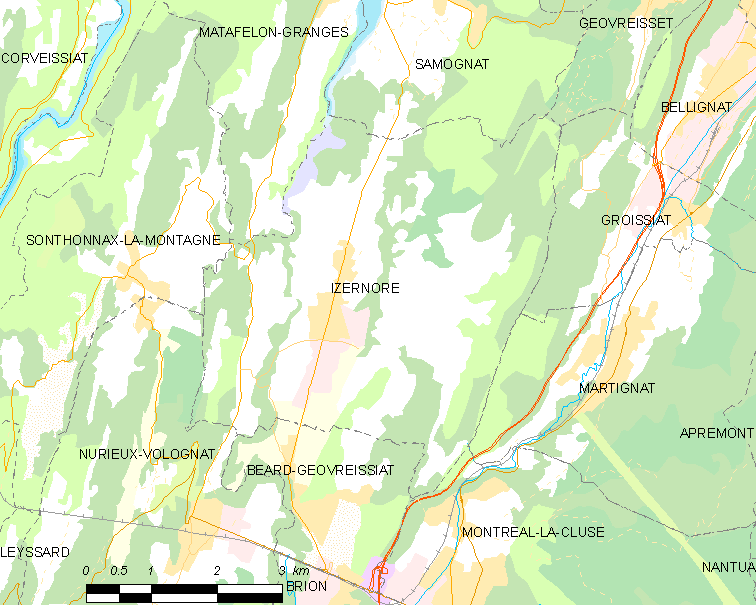 Map of French commune: Izernore Map commune FR insee code 01192.png